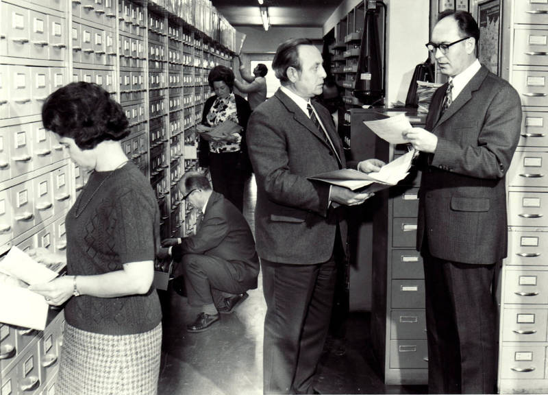 Historical photo of ITS: staff members researching individual fates